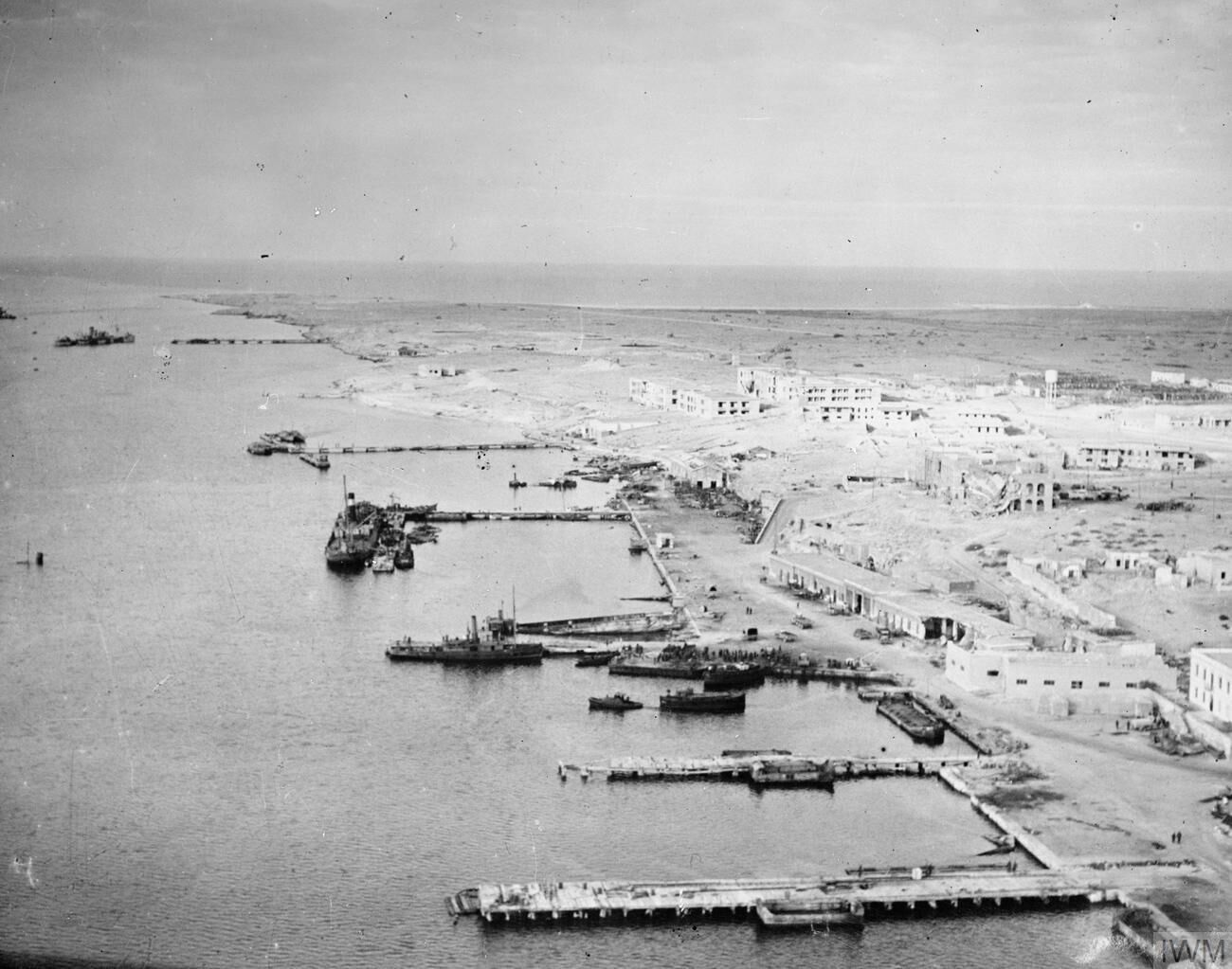 Aerial Photographs of Tobruk This aerial picture of Tobruk shows ships, some sunken and other afloat. Some of the garrison can be seen embarking from the town which they defended so bravely during the long months of seige.